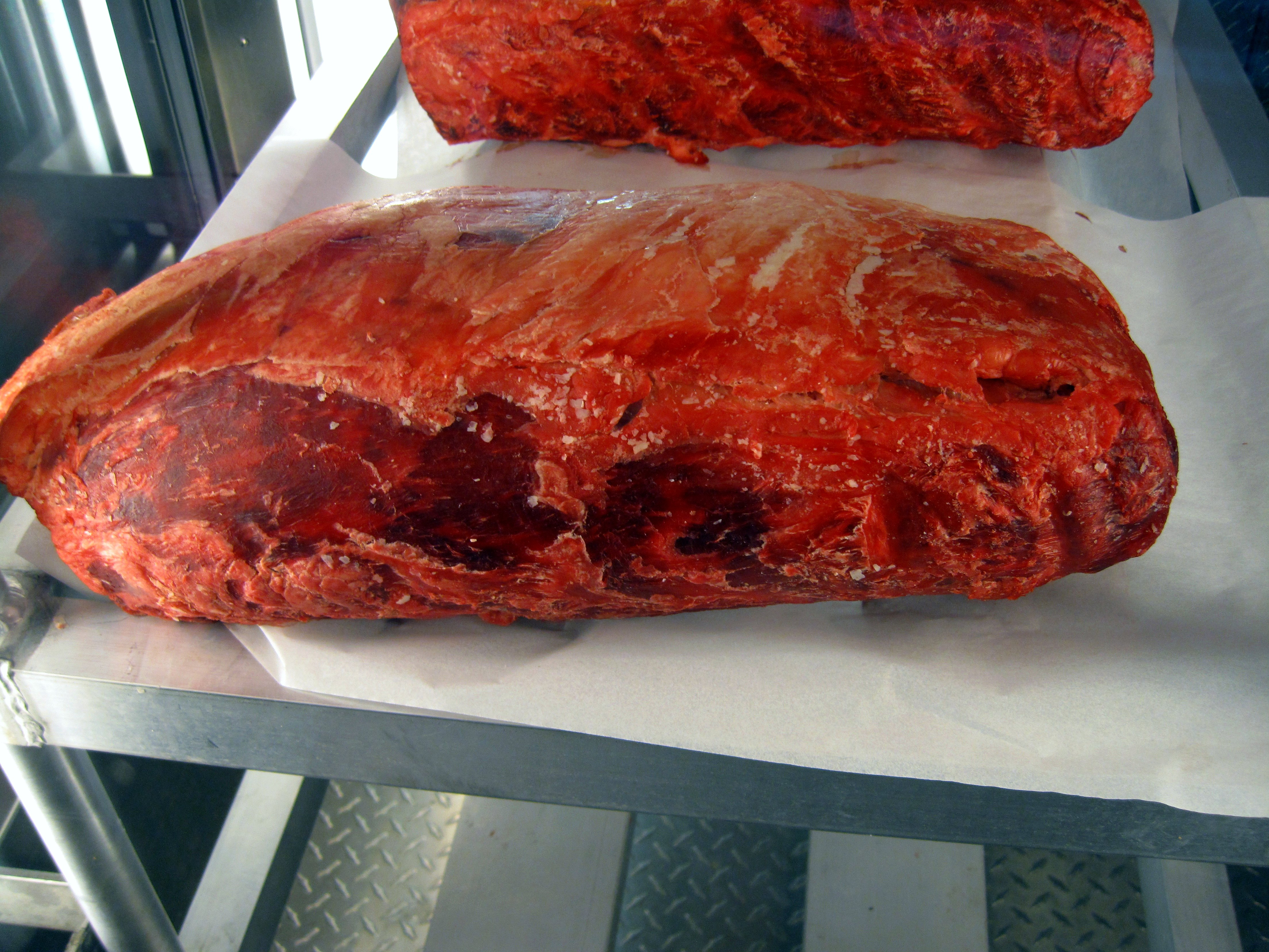 Dry aging beef at Gallagher's Steakhouse in Las Vegas.